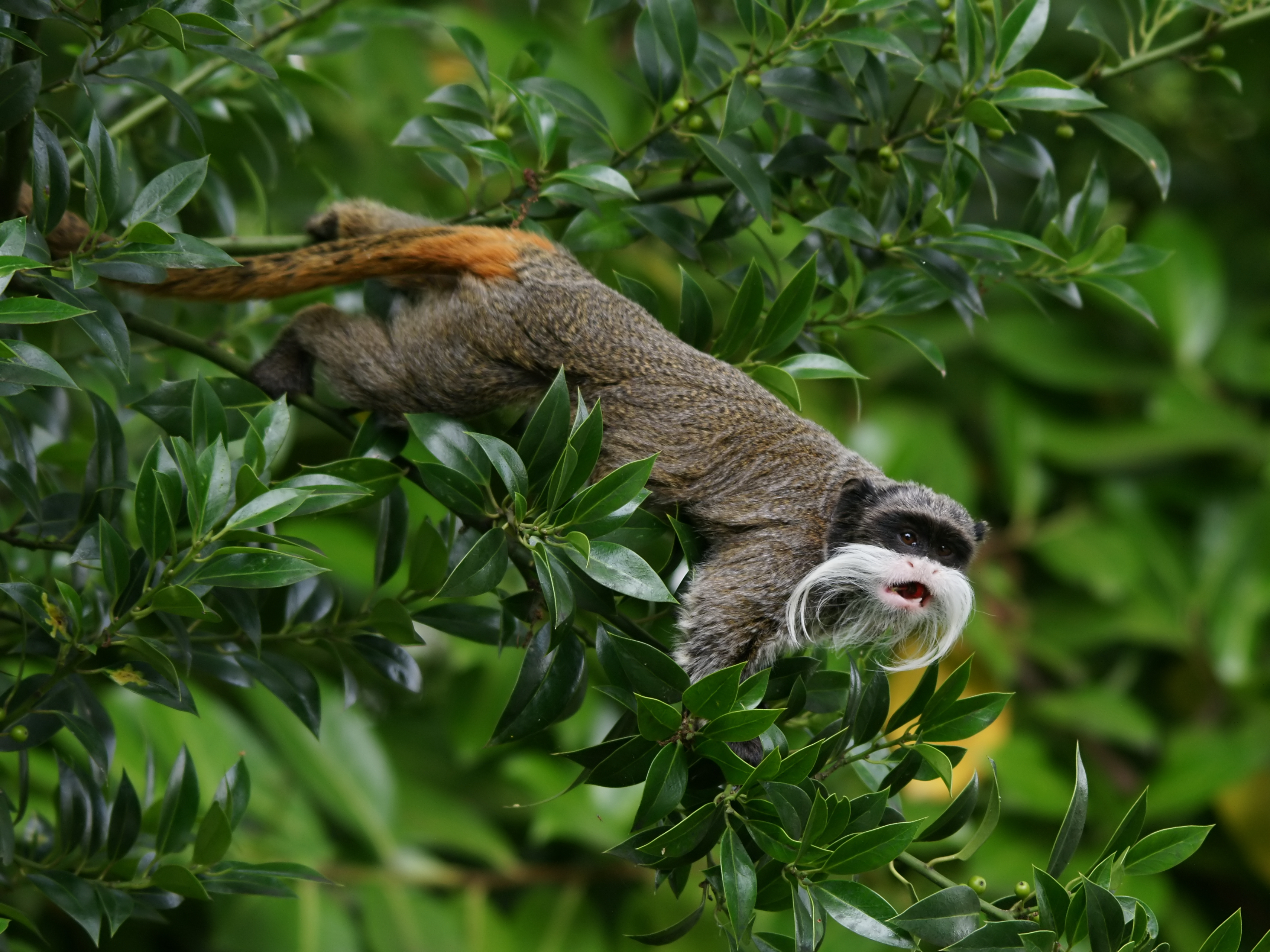 Emperor Tamarin at Chester Zoo near Chester, UK.